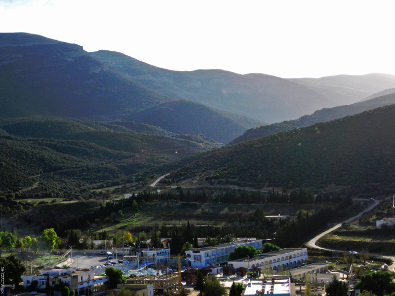 View on Hammam Essalhine Aquae Flavianae inside the Aures.